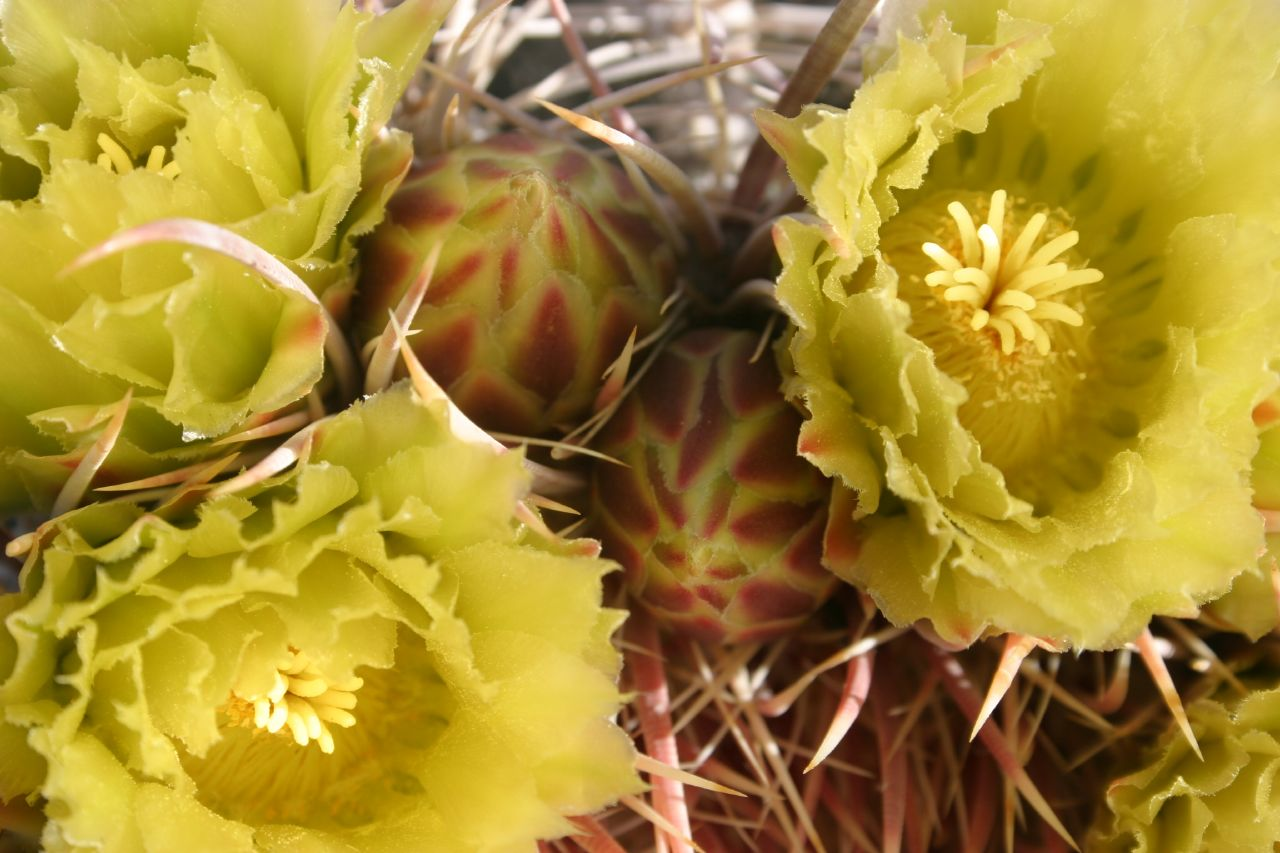 Ferocactus cylindraceus, Coachella Valley, Riverside County, California